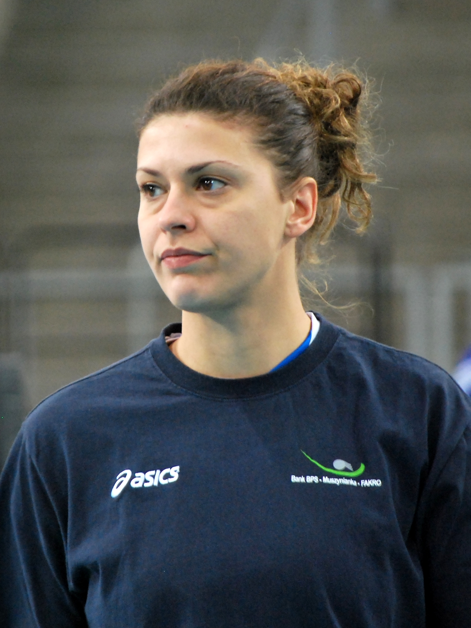 Valentina Serena, volleyball player from Italy